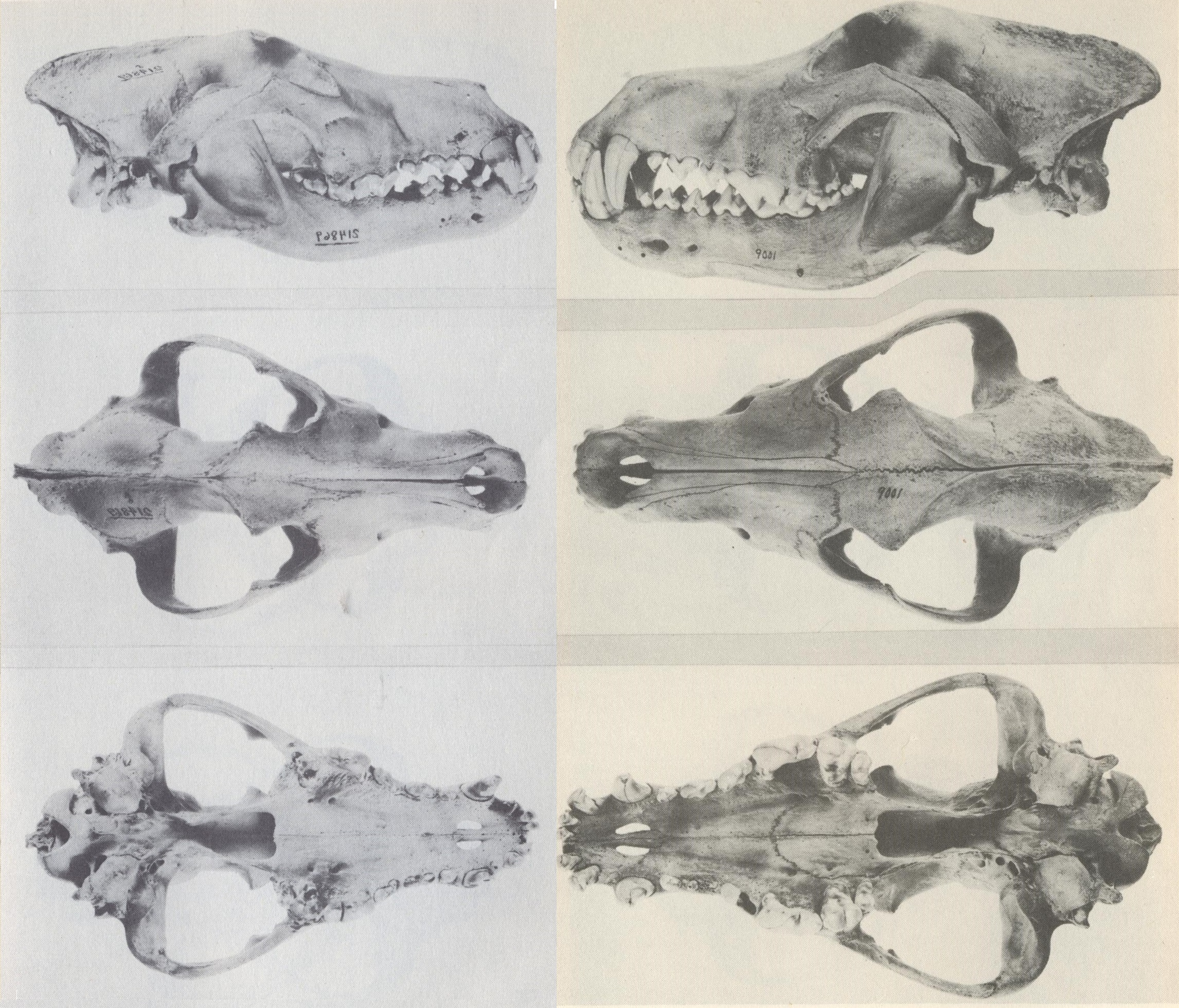 Comparison between skulls of Canis lupus irremotus and Canis lupus occidentalis.